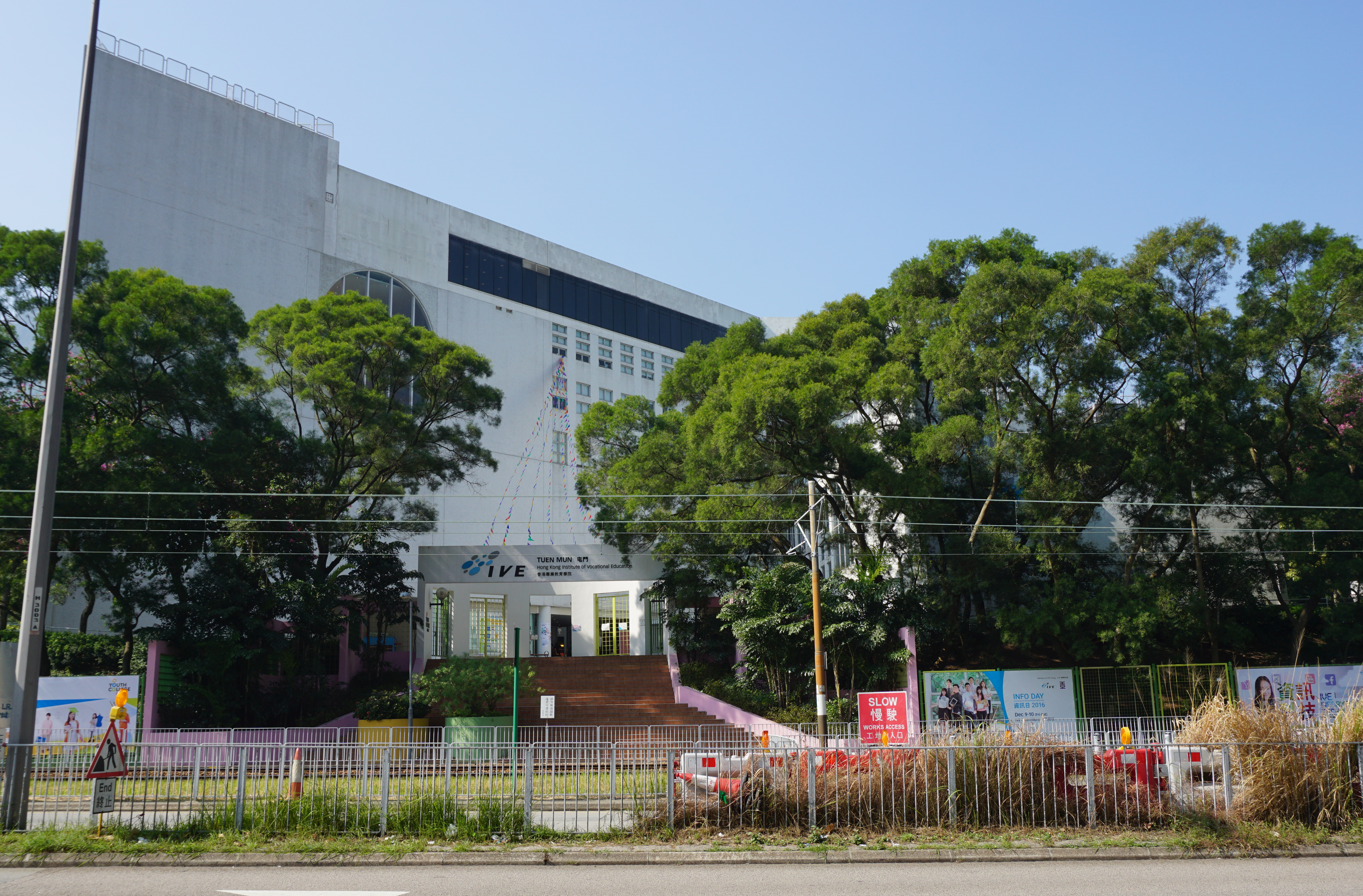 Institute of Vocational Education in Tuen Mun, Hong Kong.